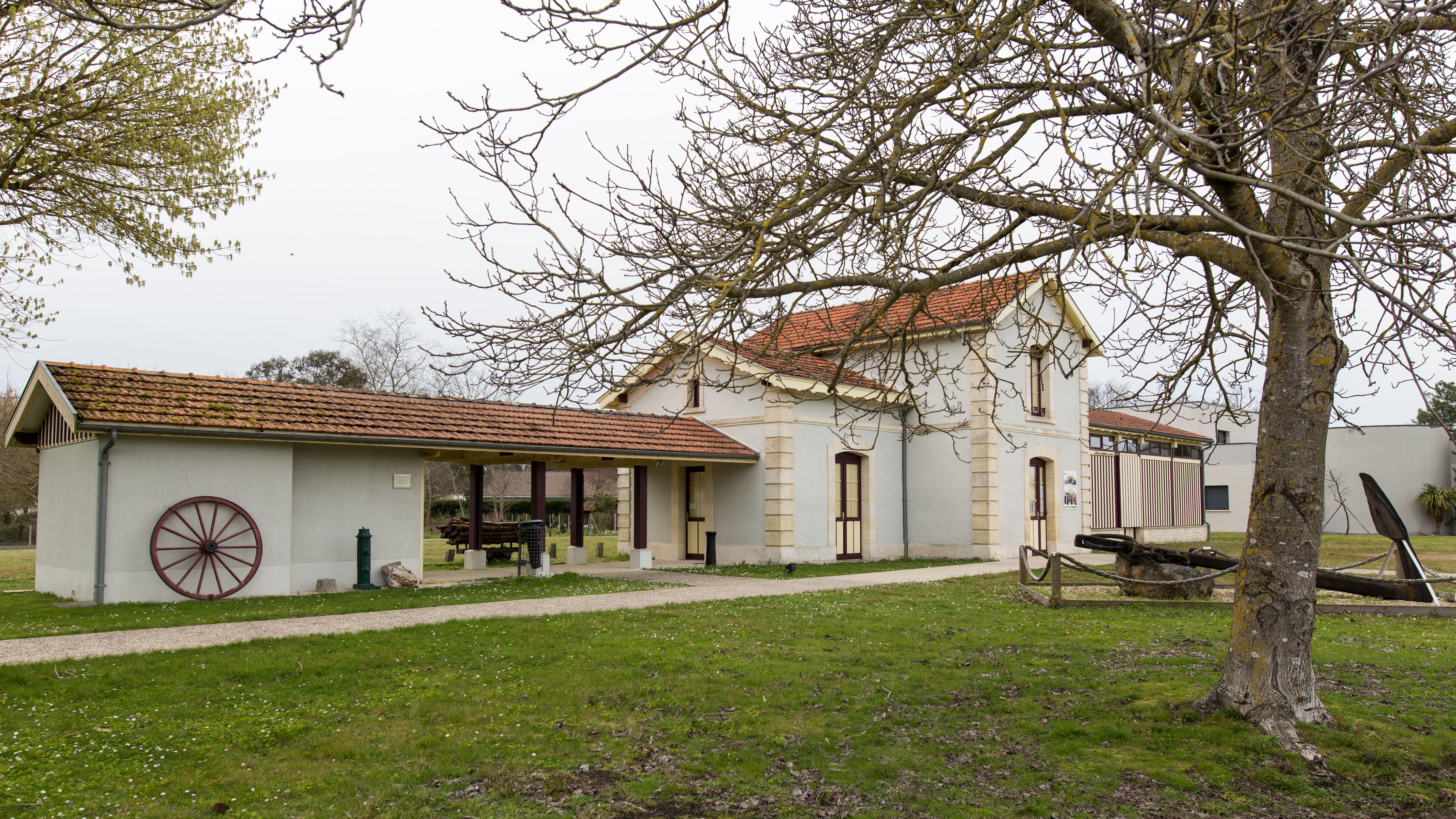 Ancienne gare